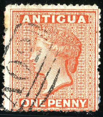 1 p Antigua vermilion issue 1867. Michel N°2b. Used A02 (St John). Yvert 2A.